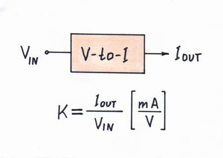 Voltage-to-current converter (block diagram)